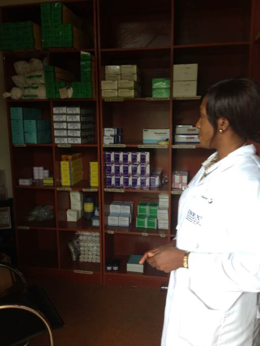 Supply closet and personal protective equipment (PPE) in the new Ebola isolation ward in Lagos, Nigeria. For more information on Ebola and what CDC is doing, please visit